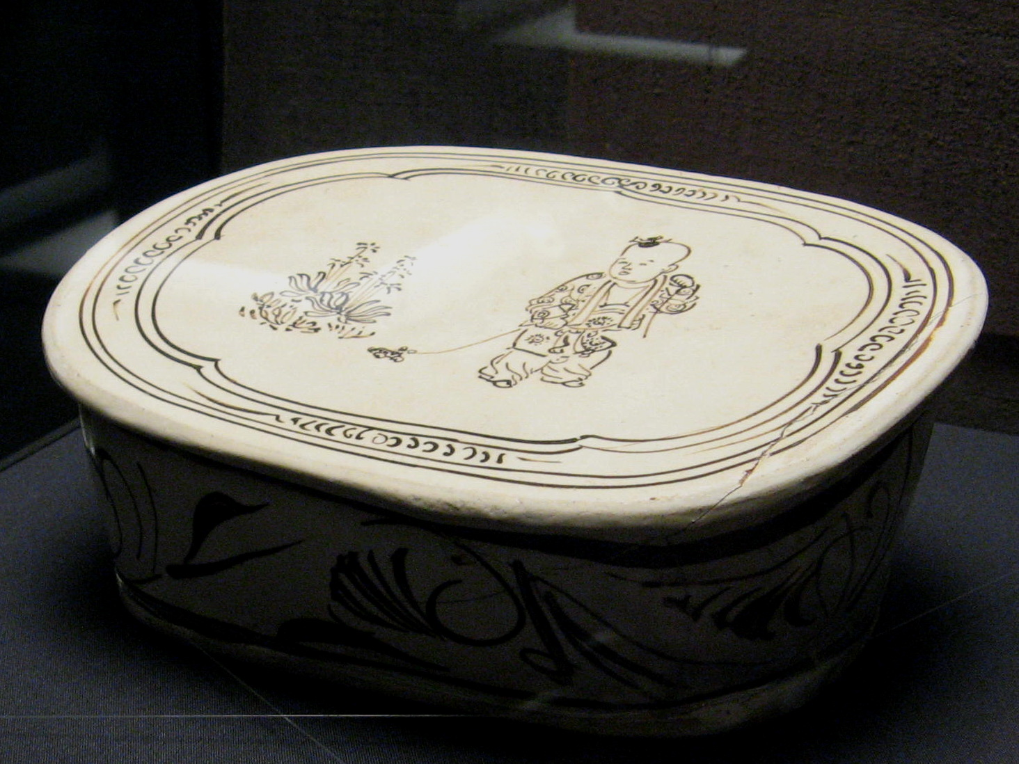 white glazed pillow with black design of playing children, Cizhou ware, Haidian Museum